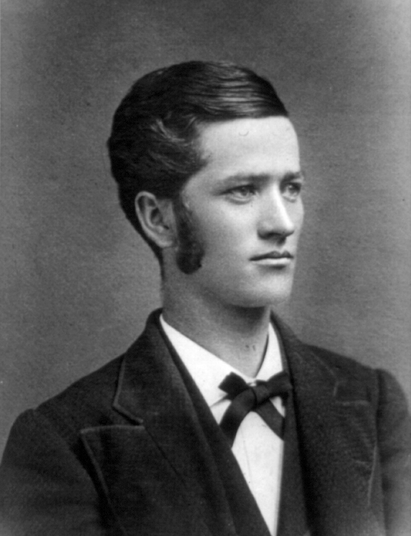 Carte-de-visite bust portrait of Robert Marion La Follette, Sr., college yearbook photo